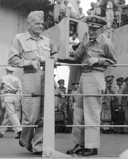 US Navy Admirals Bull Halsey (left) and John S. McCain (right) on the USS Missouri shortly after the conclusion of the surrender ceremonies, 2 September 1945. Adjusted for contrast and brightness